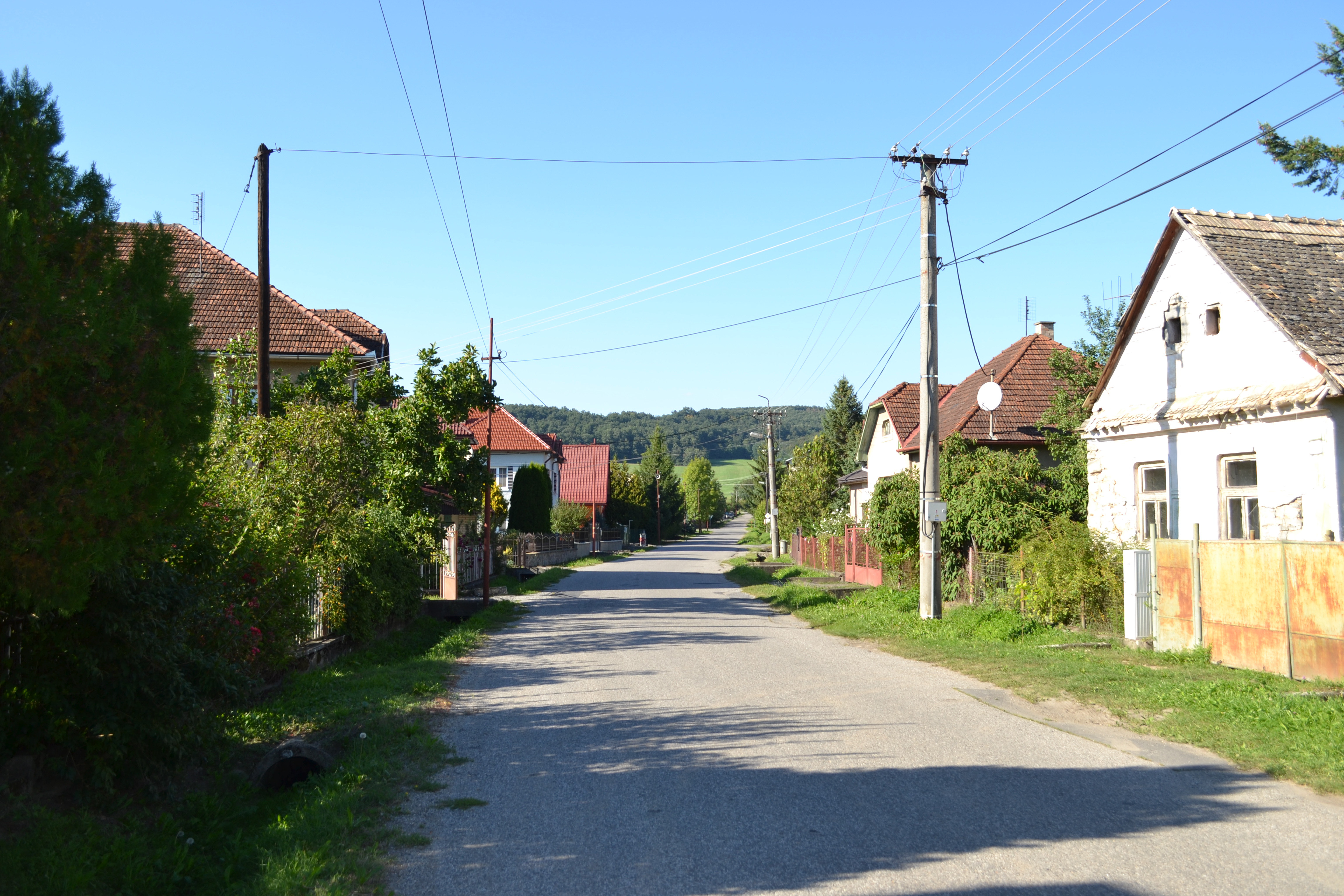 Street in Vyšný Skálnik